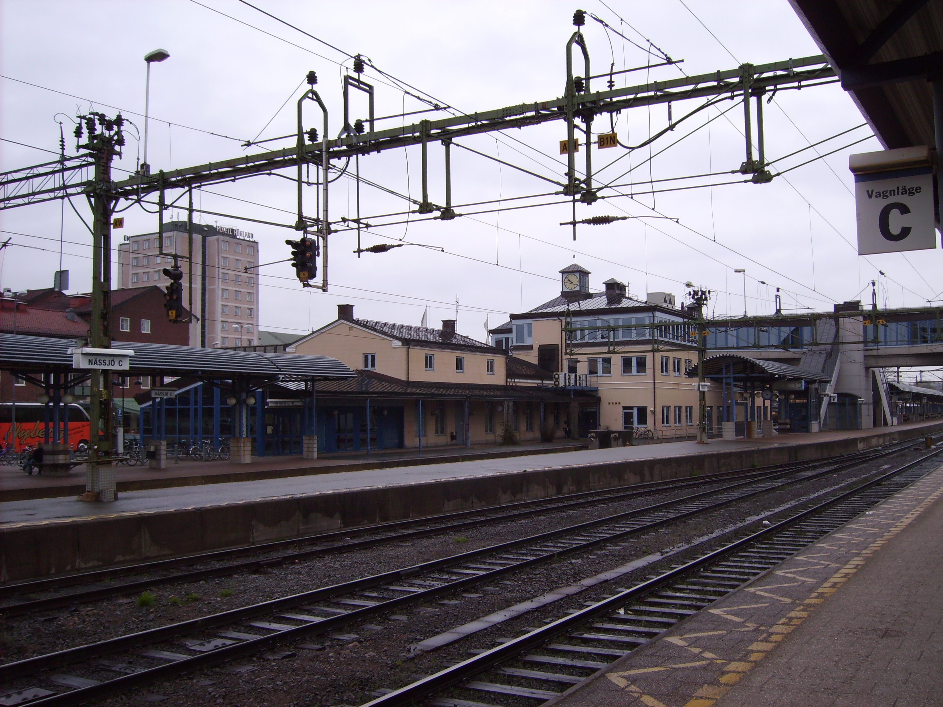 Photo by Harri Blomberg.